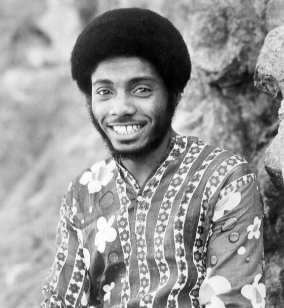 Publicity photo of Franklin Ajaye. Ajaye had an earlier career as a musician, but is now a comedian.